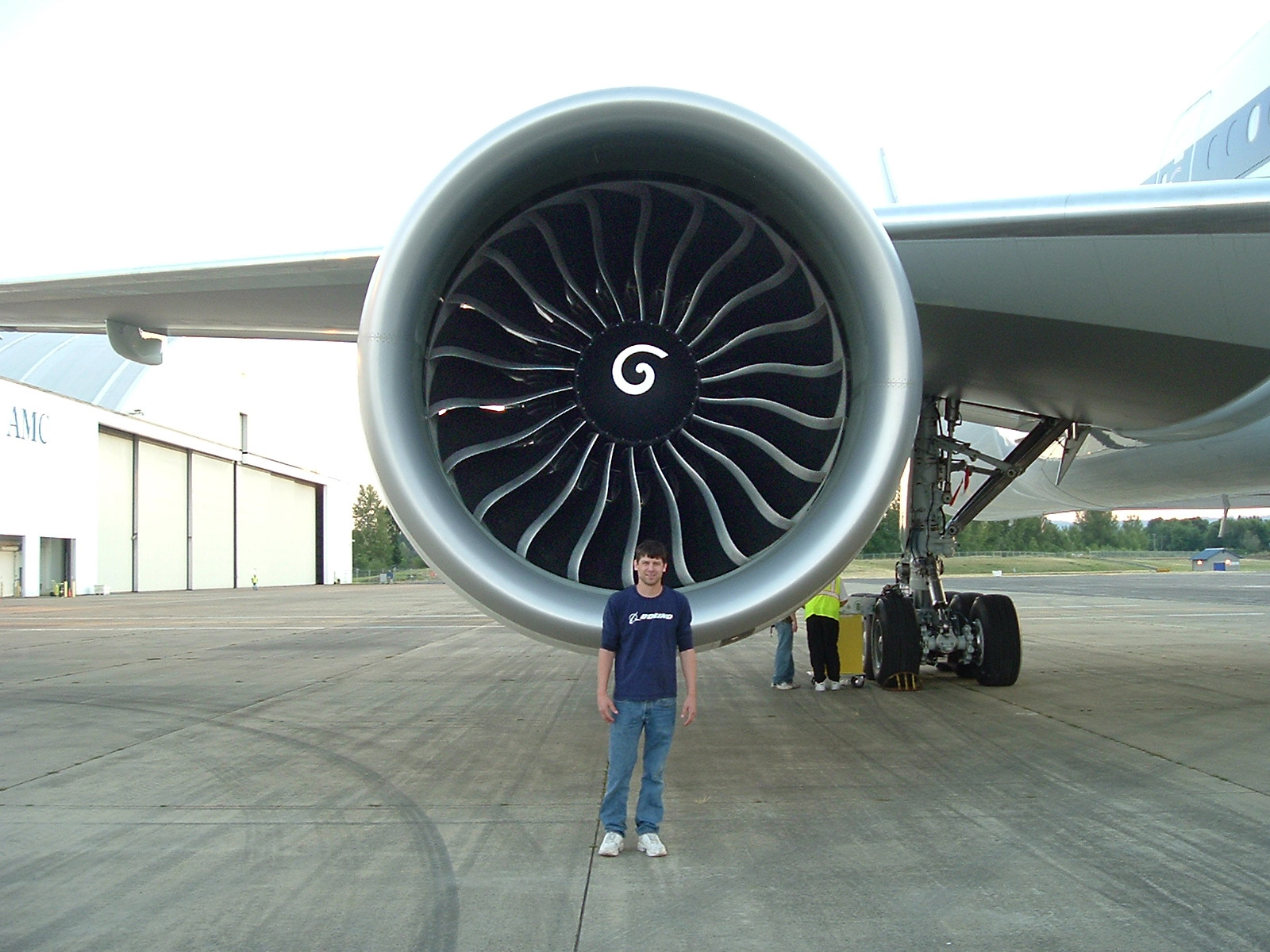 Engine of a Jet Airways Boeing 777-300ER.